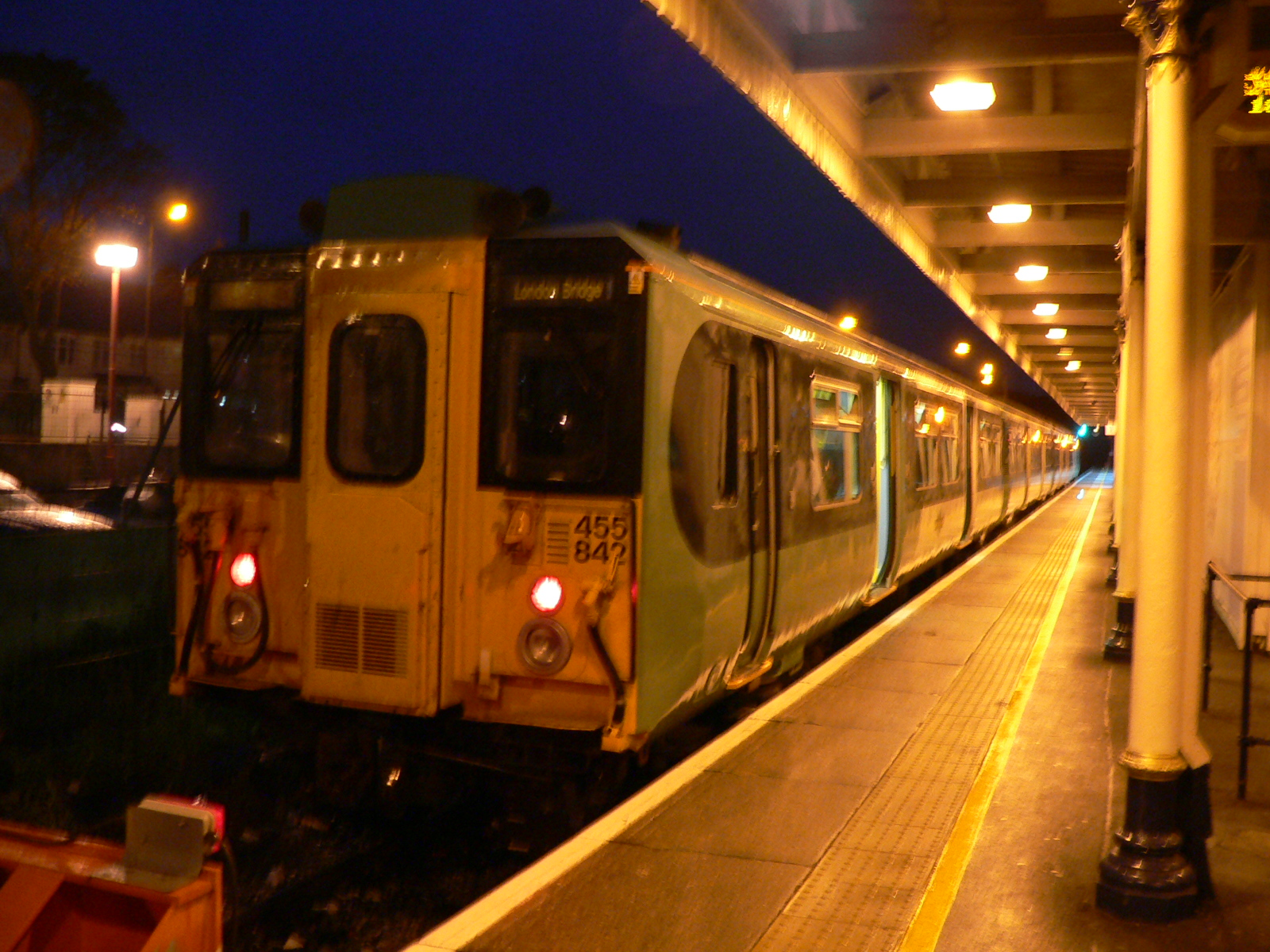 Southern Class 455 electric multiple unit 455842 at platform 1 of Beckenham Junction station in South London on 24 October 2005, shortly before departure with a local service to London Bridge